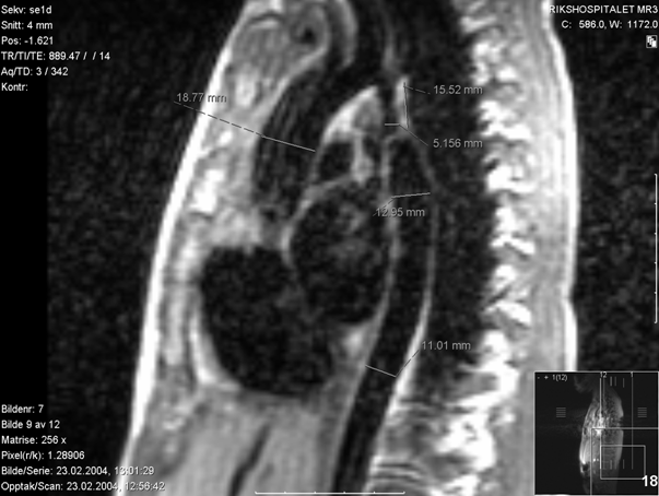 MRI picture of a coarctation of the aortic arch. Picture released with consent of my employer